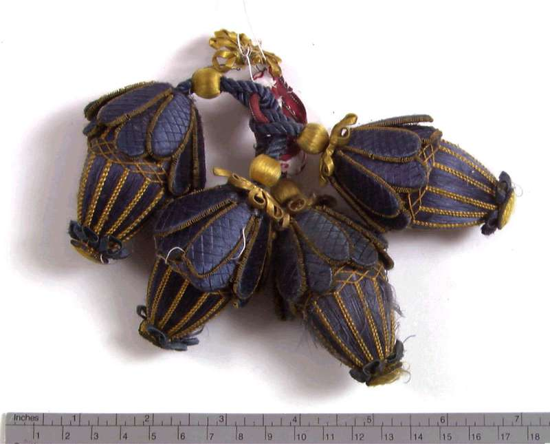 Trimmings, Norsk Folkemuseum